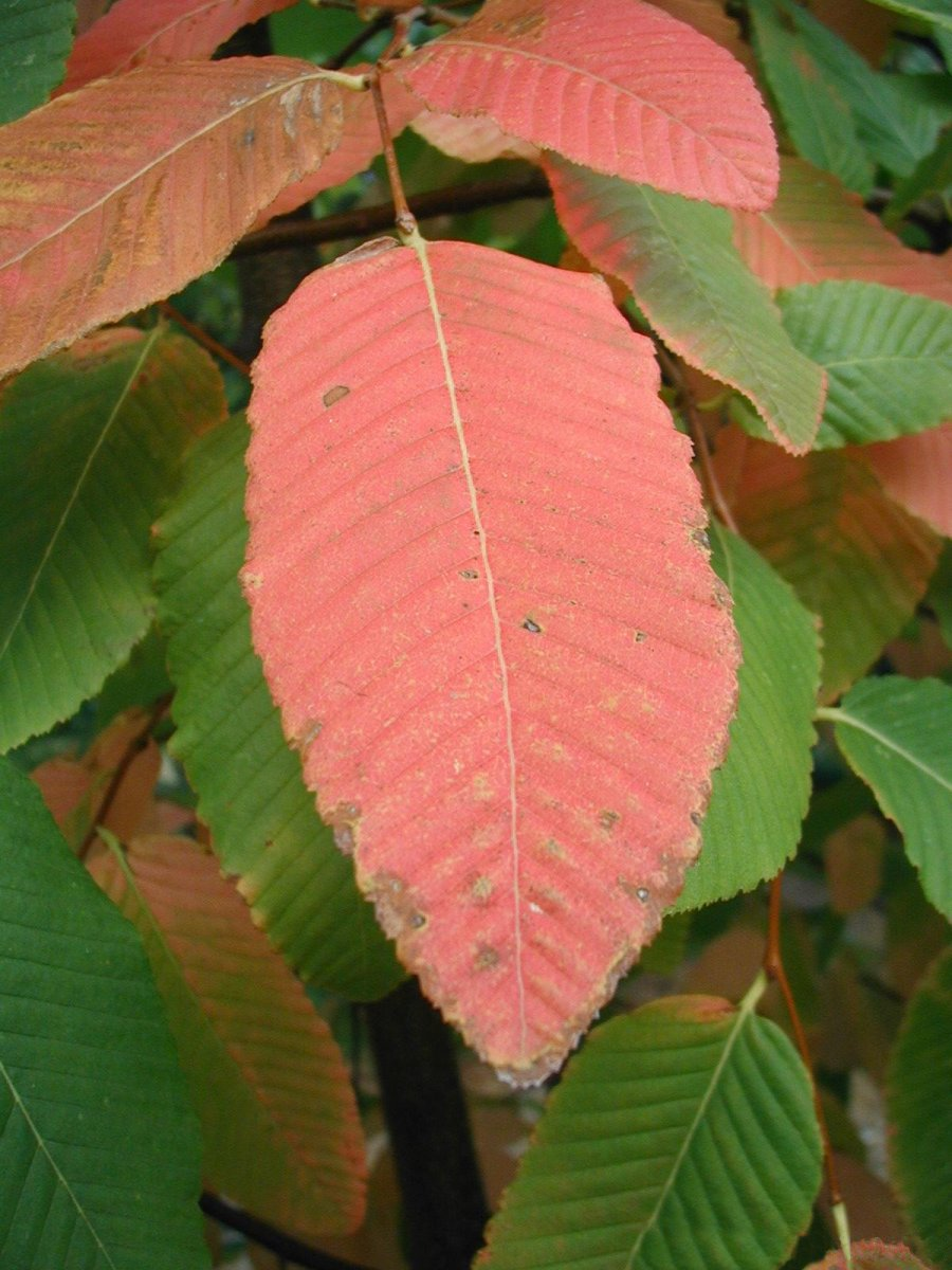 Nothofagus alpina: Autumn-coloured leaves. Photo: Sten Porse Removed watermark read: Sten Porse 26-9-2002